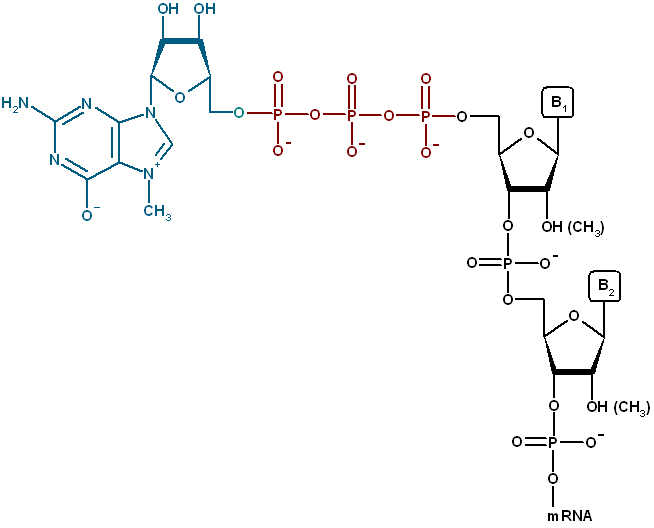 The structure of the 5' end of eukaryotic mRNAs (cap structure). B1 and B2 represent nucleobases (G, A, C or U).